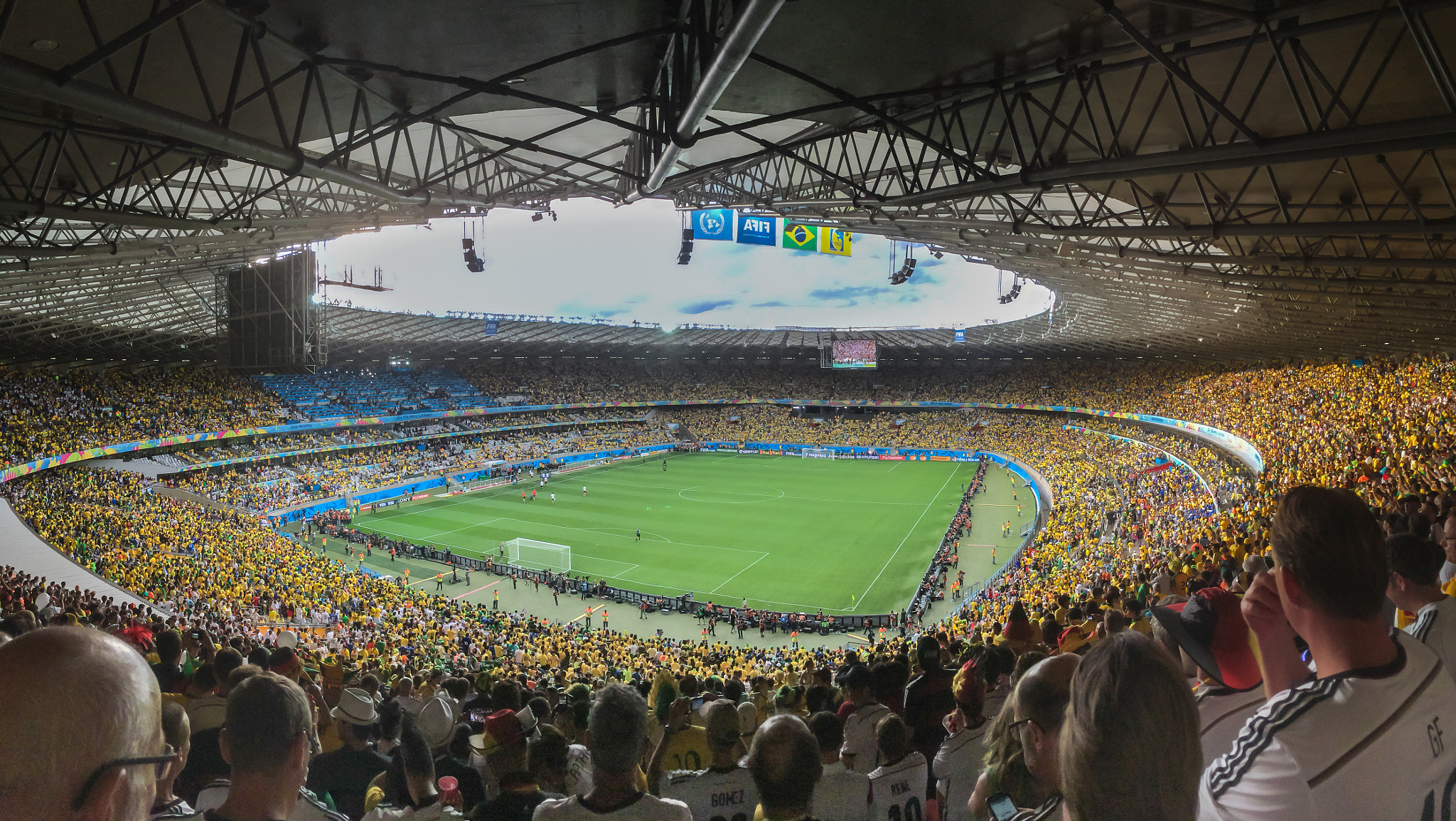 500px provided description: Stadion Belo Horizonte Wm 2014 [#city ,#beach ,#travel ,#sun ,#architecture ,#soccer ,#trip ,#brasil ,#stadium ,#architektur ,#stadion ,#worldcup ,#strand ,#stadt ,#brasilien ,#reise ,#geotagged ,#weltmeisterschaft ,#br ,#belohorizonte ,#minasgerais ,#worldcup2014 ,#fusball ,#wm2014 ,#allgemein ,#l?nderst?dte ,#fusballweltmeisterschaft]